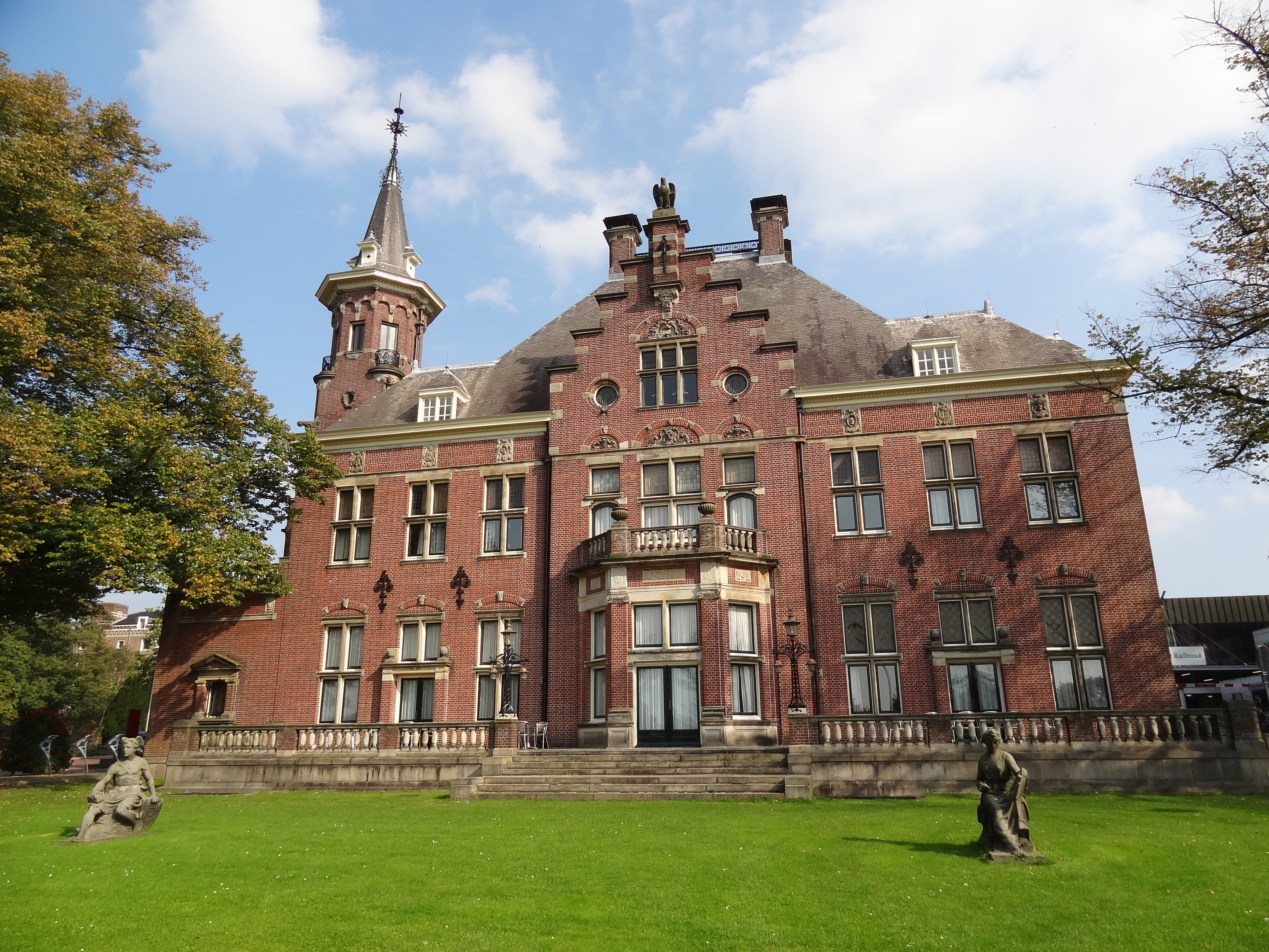 Huis Heyendaal at the Geert Grooteplein in Nijmegen, The Netherlands